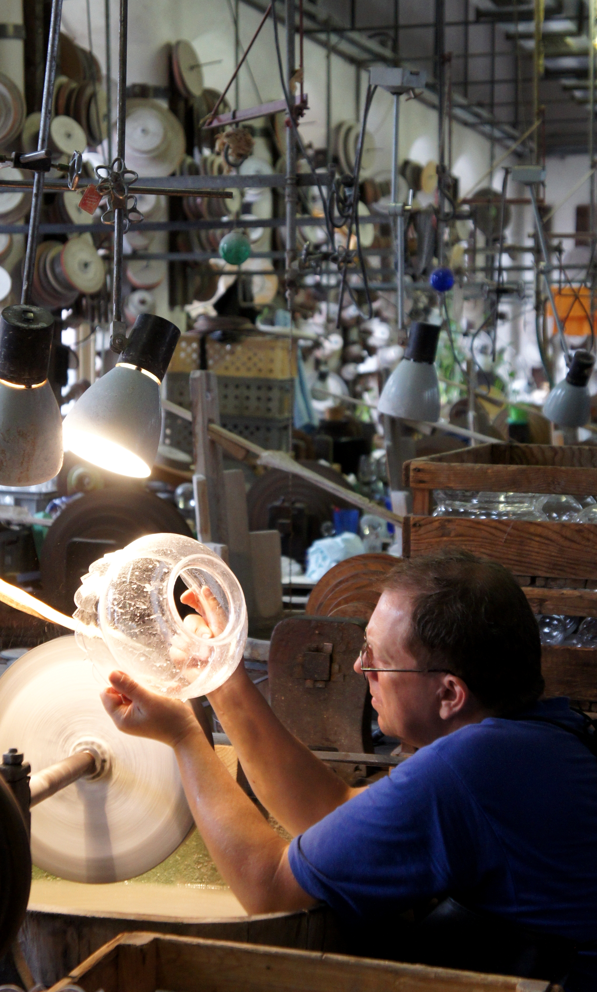 Glass worker in Harrachov glassworks